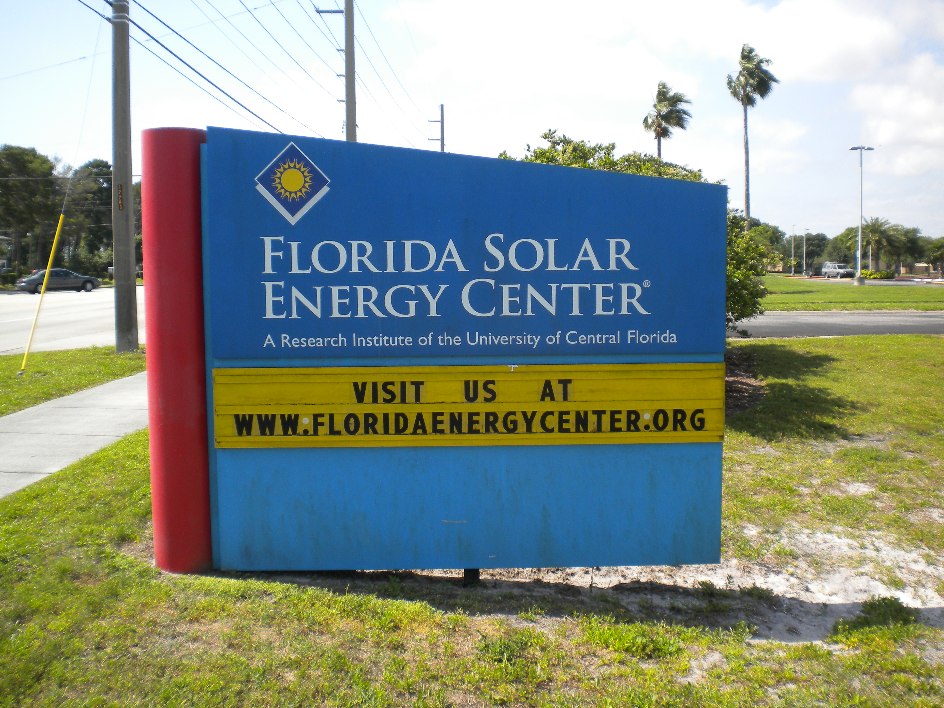 Sign at the Florida Solar Energy Center, 1679 Clearlake Road, Cocoa, Florida.